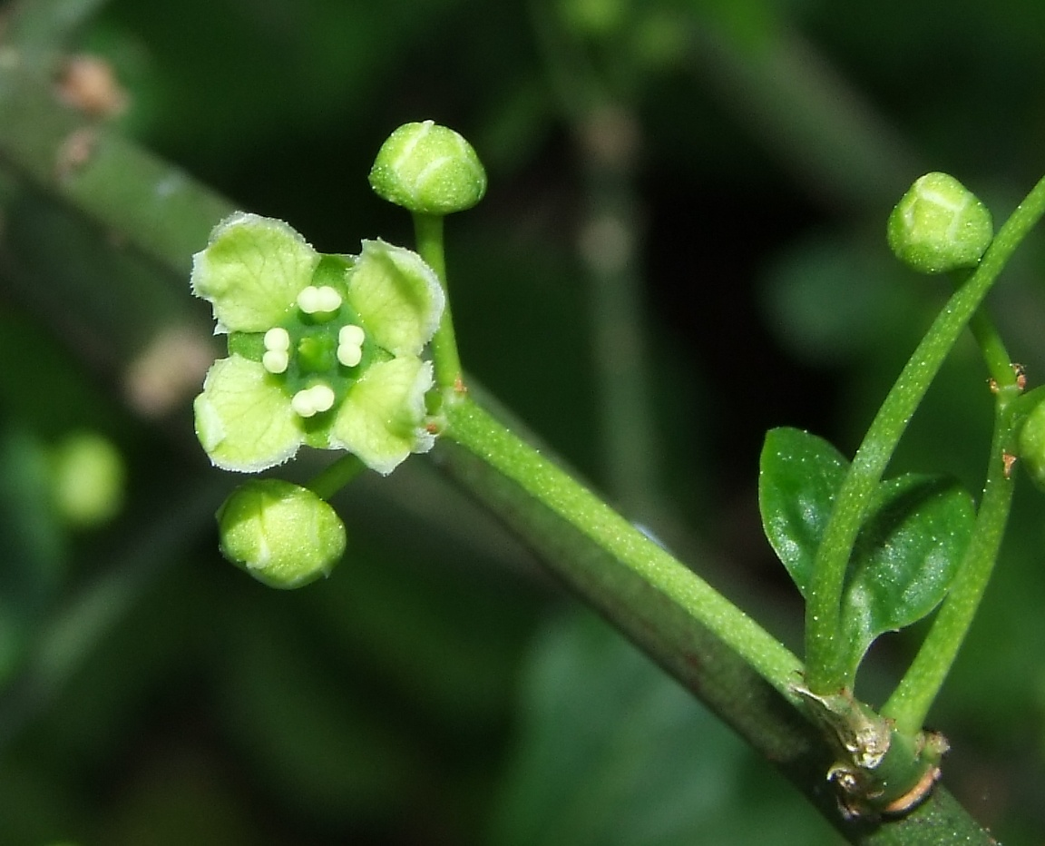 flower of Euonymus europaeus taken in Germany, Bavaria, Munich, Obere Isarauen riparian forest, full shadow